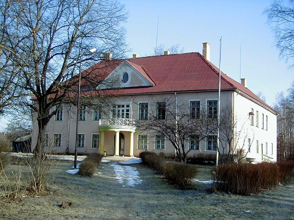 Mercendarbe Manor